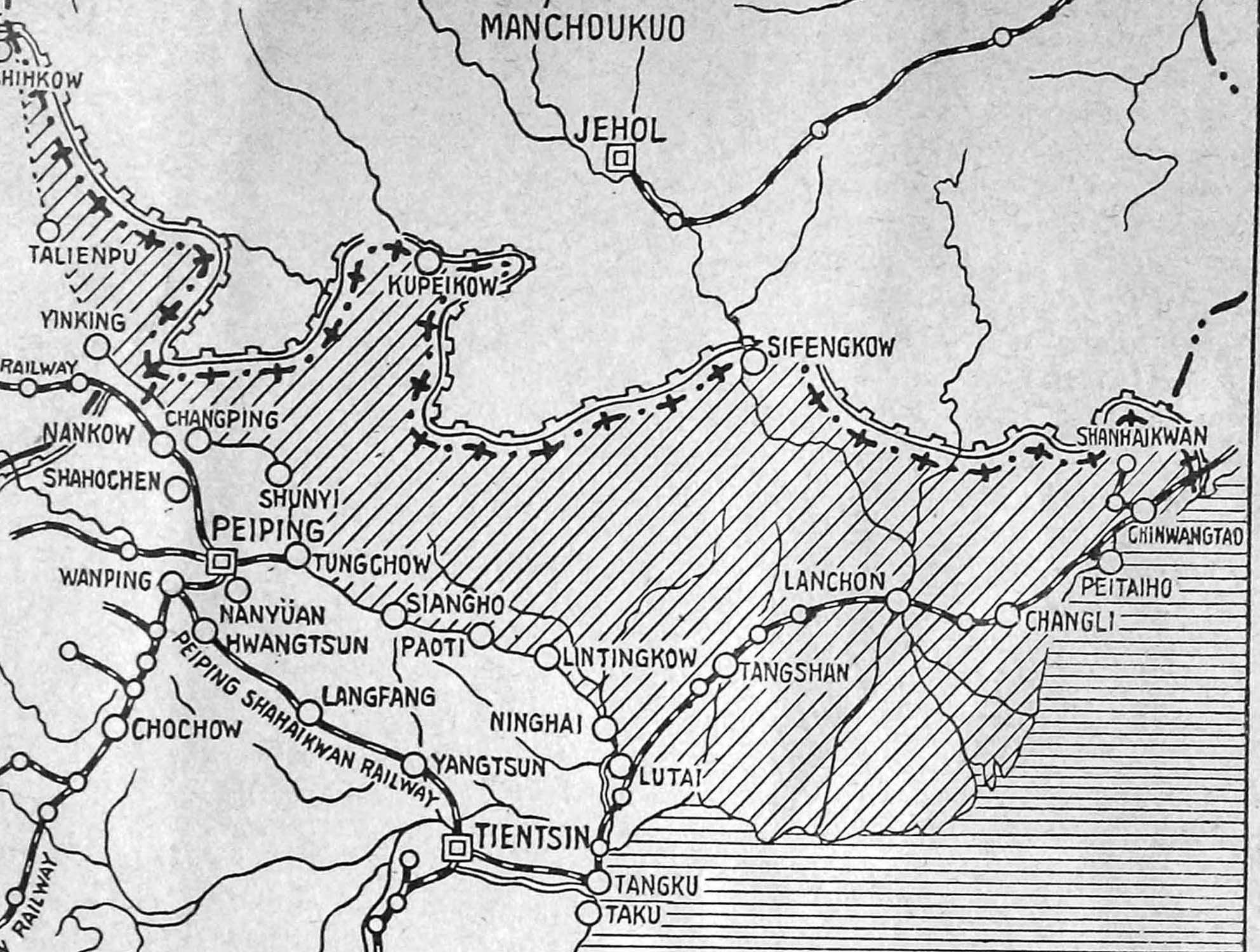 The shaded part of this map shows the areas demilitarized by the Tanggu Truce. Note also that the remainder of the Hebei Province, including Beijing and Tianjin, would also be demilitarized of Nationalist forces under the terms of the He-Umezu Agreement, but independent warlords like Song Zheyuan continued to operate there.